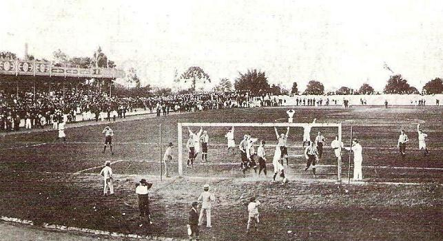 C.A. Paulistano scoring a goal to Sao Paulo AC in the final game of Campeonato Paulista in 1905.